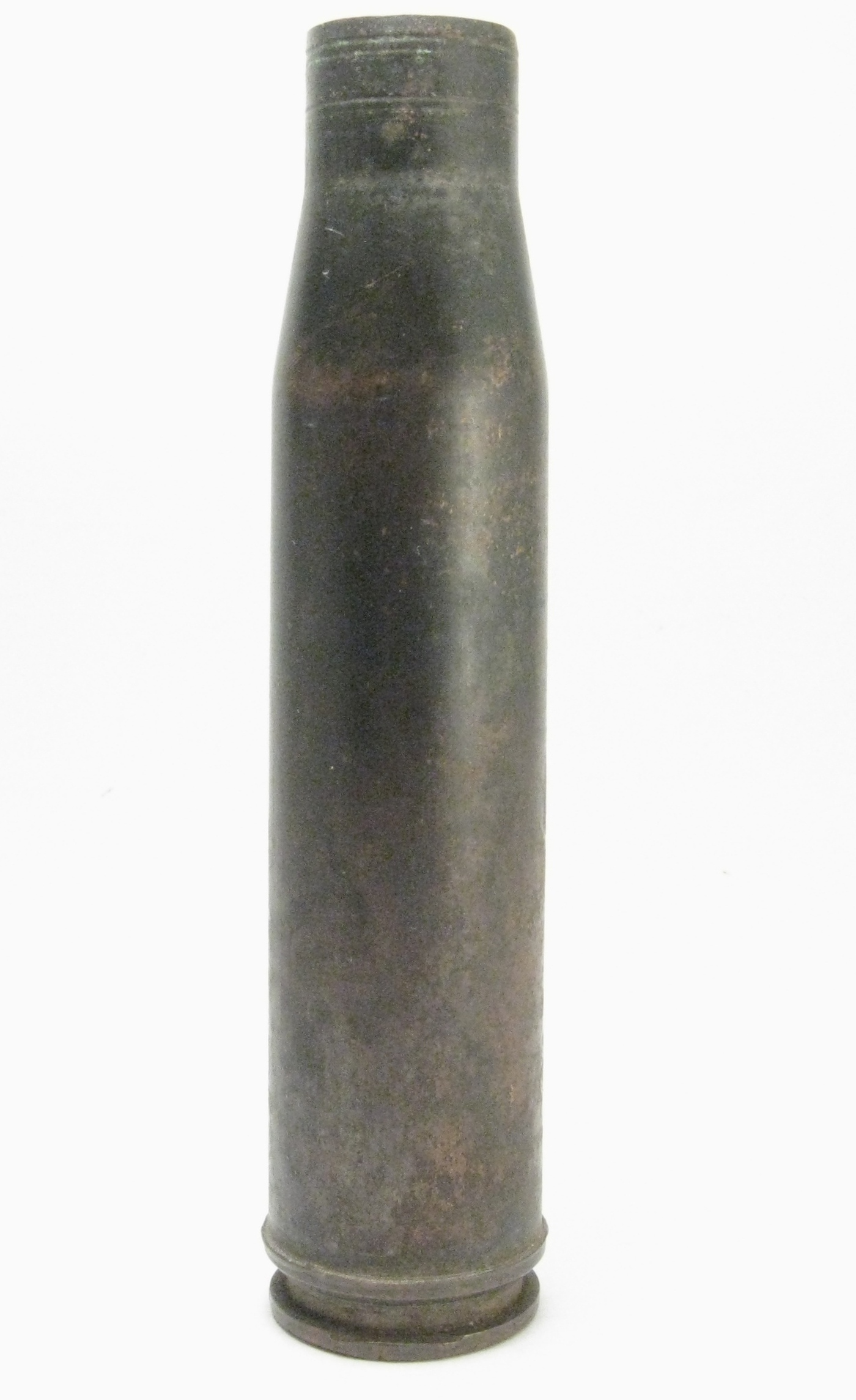 23x152 mm VYa cannon shell cartridge was found in the area near Bushevo village, where in 1943-44 German troops were attacked by Soviet aircrafts Il-2.